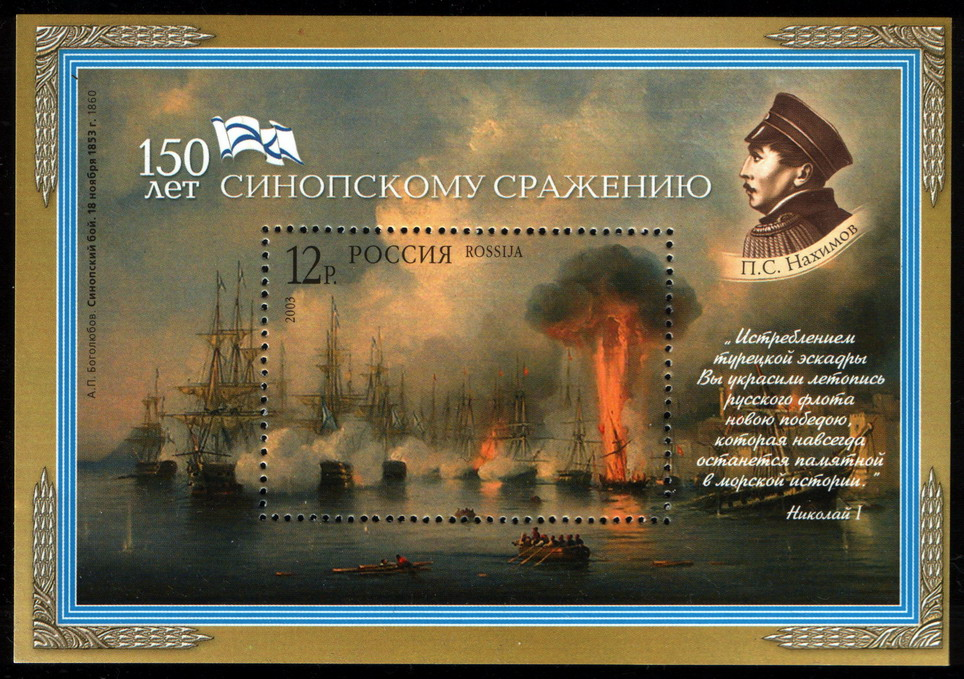 Stamps of Russia. The 150th anniversary of the Sinop battle, 2003